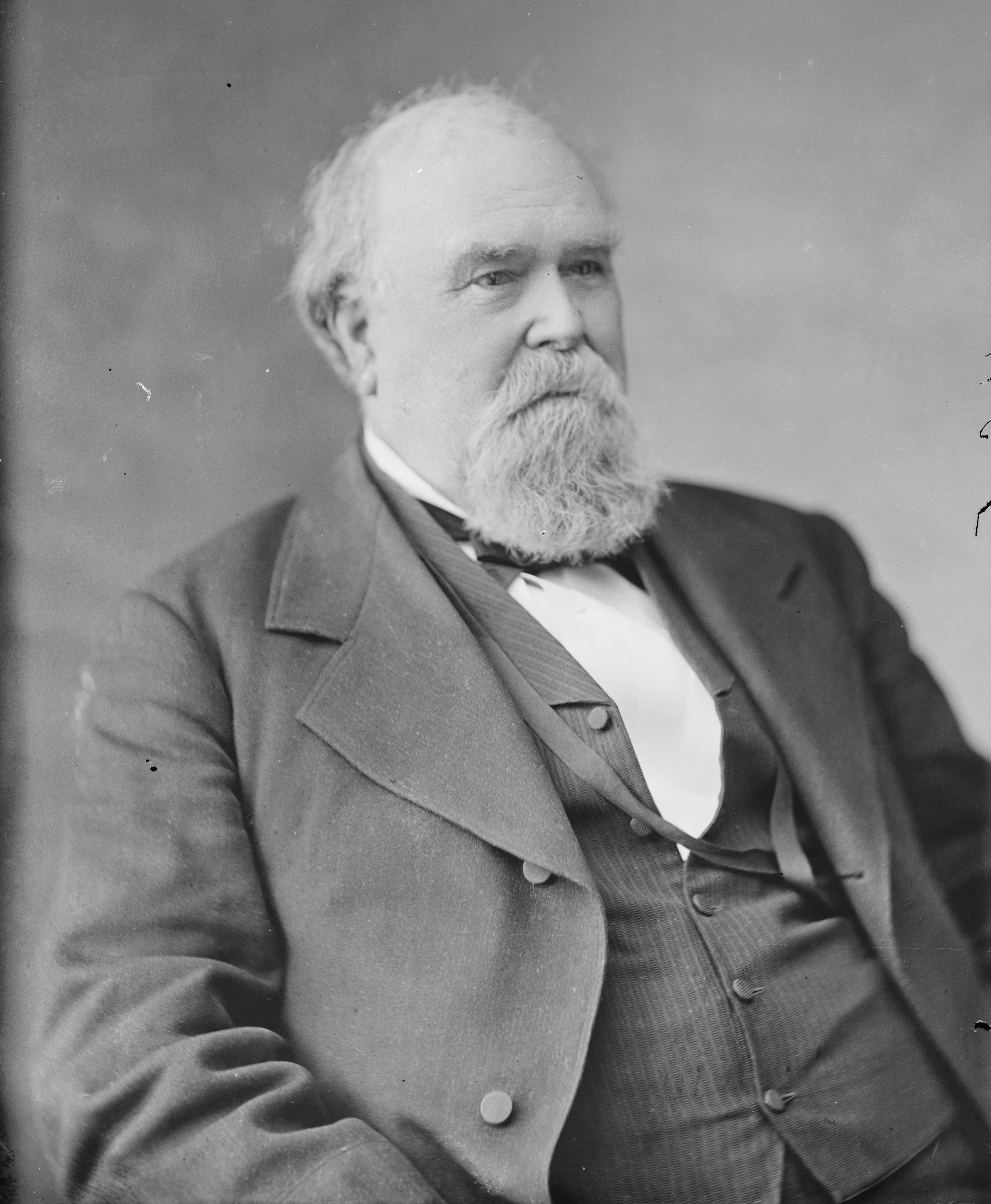 George S. Houston. Library of Congress description: "Houston, Hon. Geo. S. of ALA".